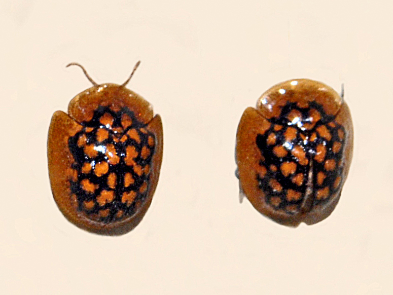 Chiridopsis punctata from Java. Museum specimen